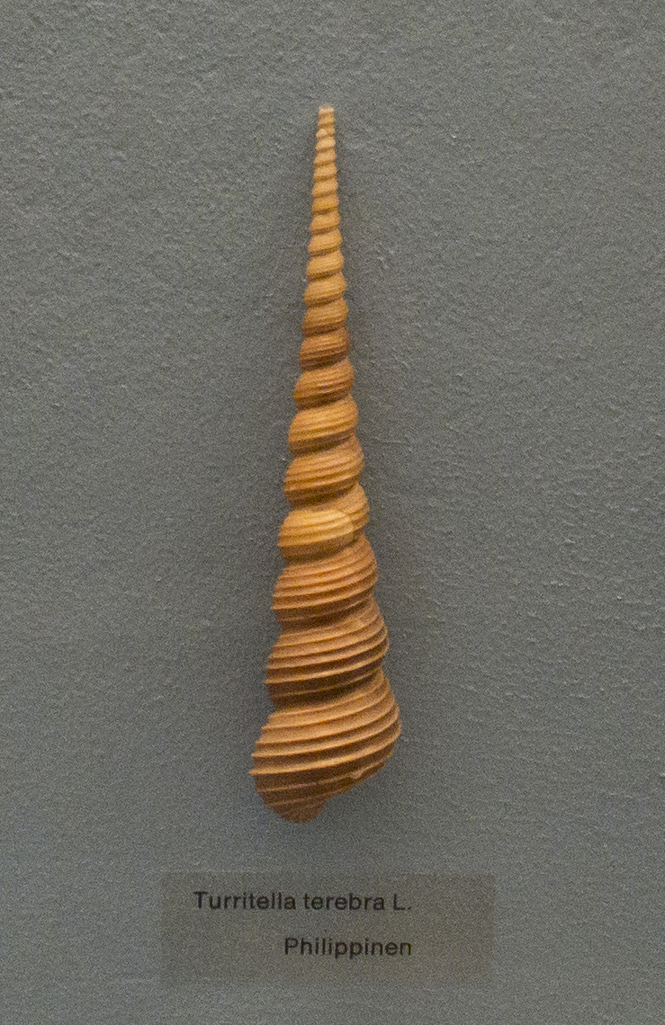 Turritella shells - Turritella terebra, Vienna Natural History Museum, Austria, 2014